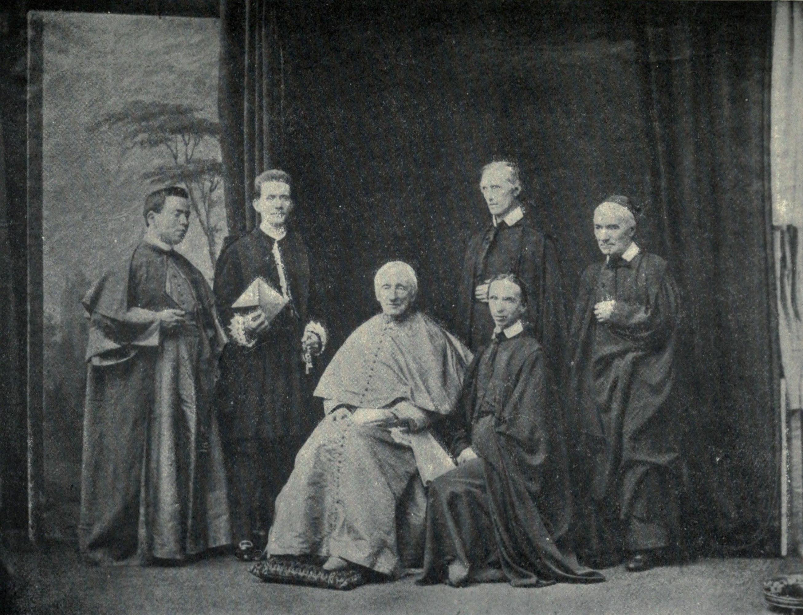 "From right to left: Father Thomas Pope, Father William Neville, Father Paul Eaglesim, Cardinal Newman, the Cardinal's 'Gentiluomo', the 'Caudatario', or Trainbearer."